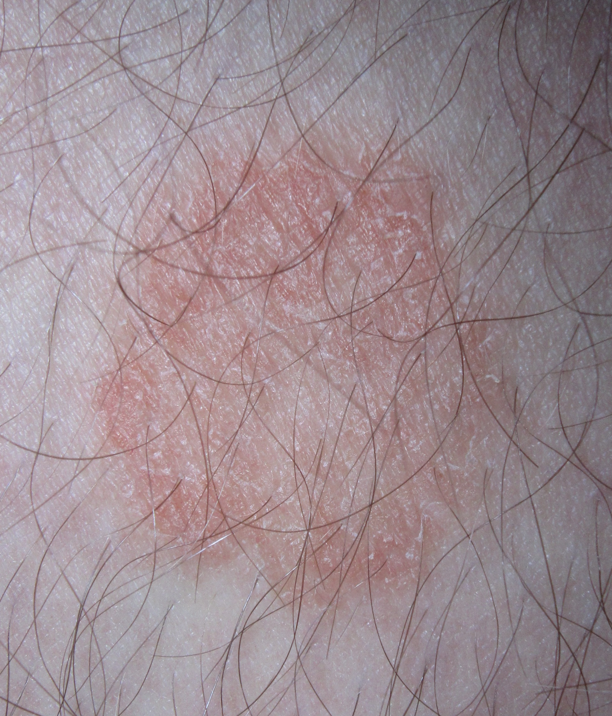 Dermatophytosis or ringworm with mildly raised boarder and central clearing